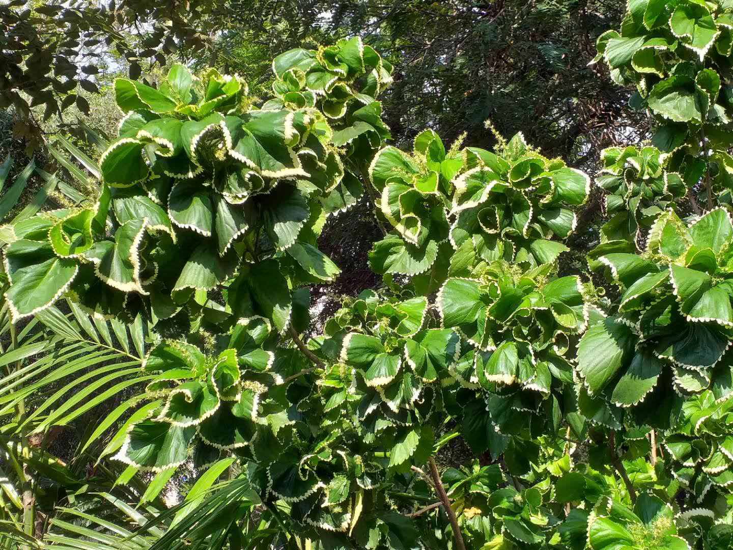 Acalypha wilkesiana. National Chung Hsing University, Taichung, Taiwan.